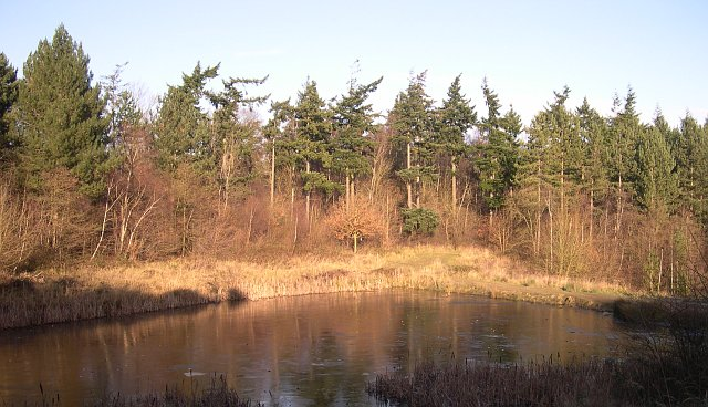 A Woodland Lake, Bourne Wood. This is one of two lakes created in the early 1970's. The glassy appearance is due to melting ice on the surface of the lake.